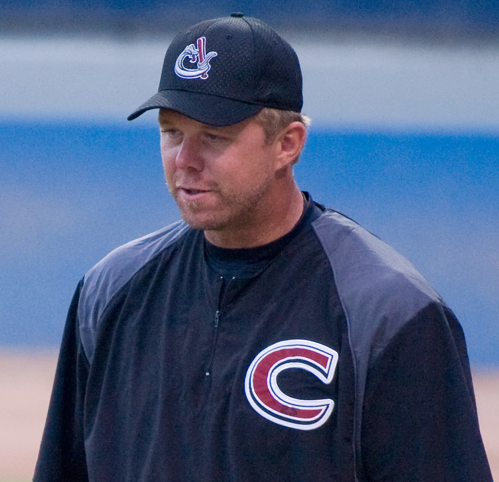 Steve Yeager, manager of the Long Beach Armada, and Mike Busch, manager of the Calgary Vipers, converse at Blair Field in Long Beach, California.